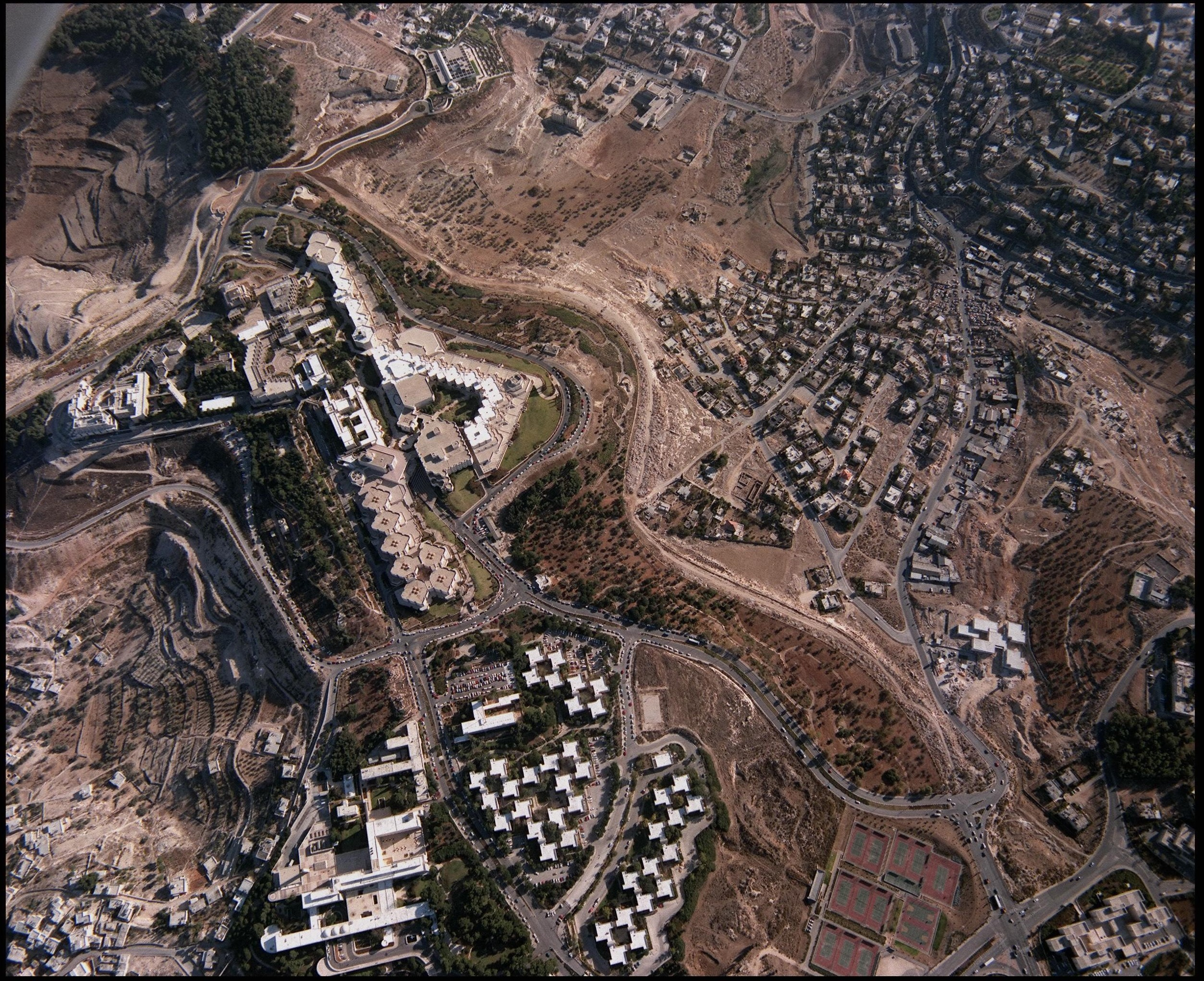 An aerial view of the Hebrew University campus on Mount Scopus in Jerusalem. The Isawia neighbourhood is seen to the right. צילום אויר של קמפוס האוניברסיטה העברית על הר הצופים בירושלים. Photo: Moshe Milner (1946–) Alternative names Miylner, Moše; Milner, Mosheh; Moshé Milner; Milner, M.; Mîlner, Moše; Miylner, MošehDescriptionIsraeli photographerצלם ישראליDate of birth 1946 Location of birth Germany Authority control : Q28750411 VIAF: 100999744 ISNI: 0000 0001 0804 0507 LCCN: n82072104 GND: 115699732 BNF: 15548788n WorldCat creator QS:P170,Q28750411 , 11/02/1990